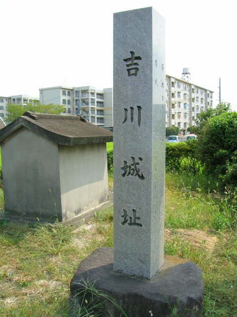 Yoshikawa-jho ato (Site of Yoshikawa castle). Loc: Obu city, Aichi Prefecture, Japan. 吉川城址 撮影場所 愛知県大府市